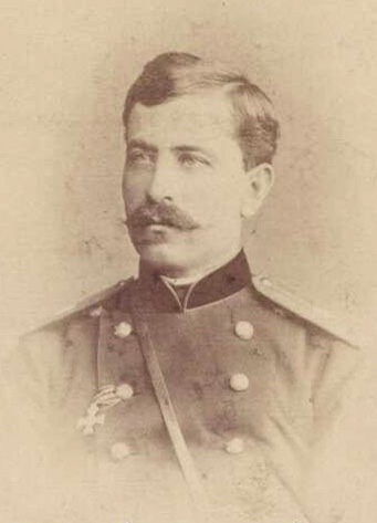 Olimpiy Panov (1852-1887)